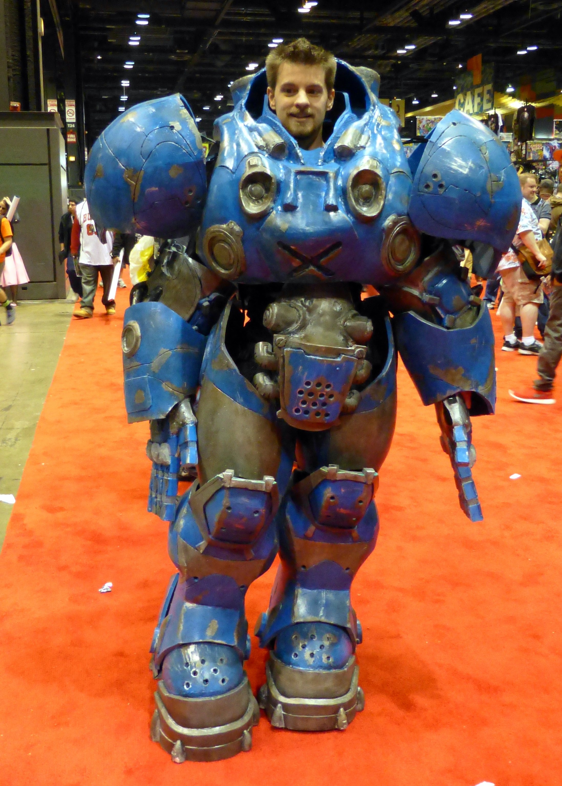 Cosplay of Jim Raynor as a Terran Marine (from StarCraft) at Chicago Comic & Entertainment Expo (C2E2) 2014.